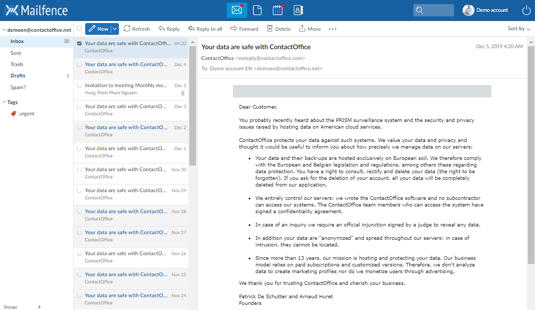 showing the user's mailbox